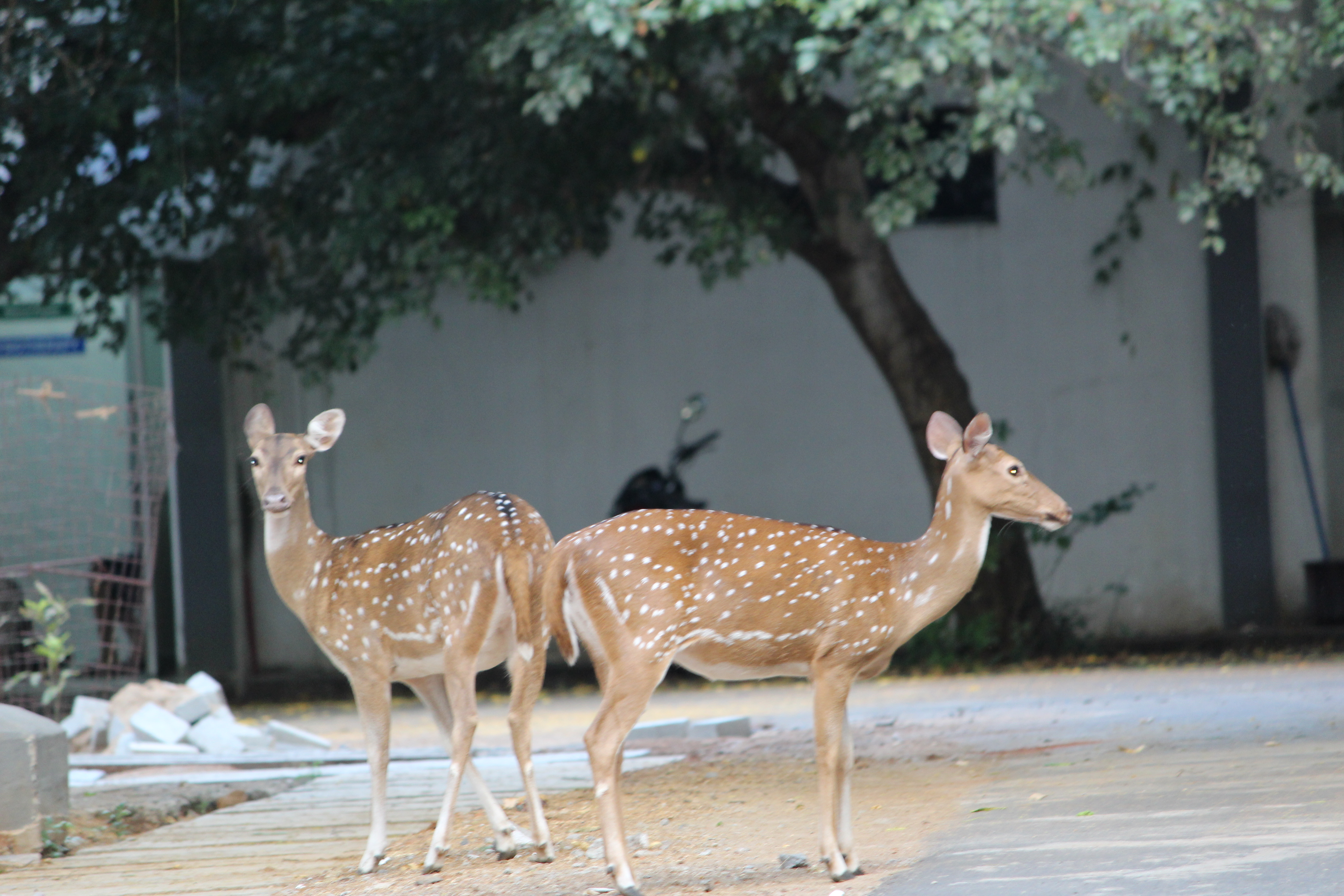 deer iitm 7